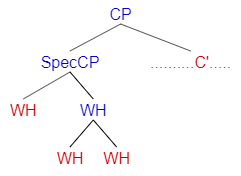 Syntax Tree of Bulgarian Multiple Wh-Movement structure under [Spec,CP] derrived from jsSyntaxtree online syntax tree maker